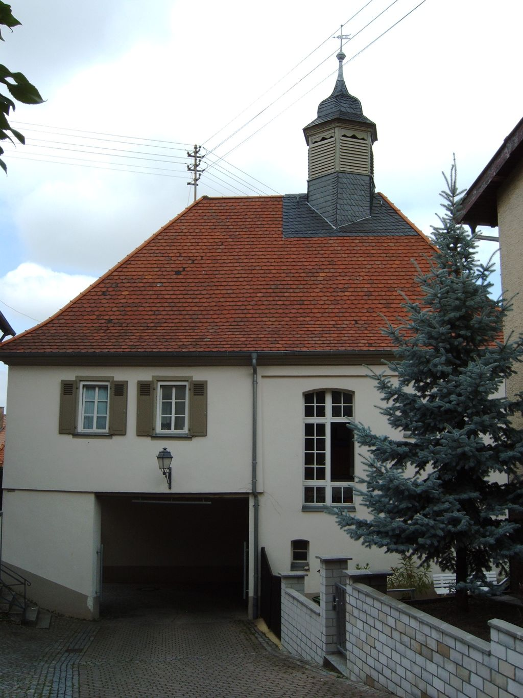 Former town hall in Hirschberg